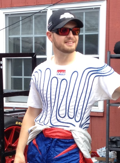 Racing Driver Matt Bell at Virginia International Raceway, 2014.